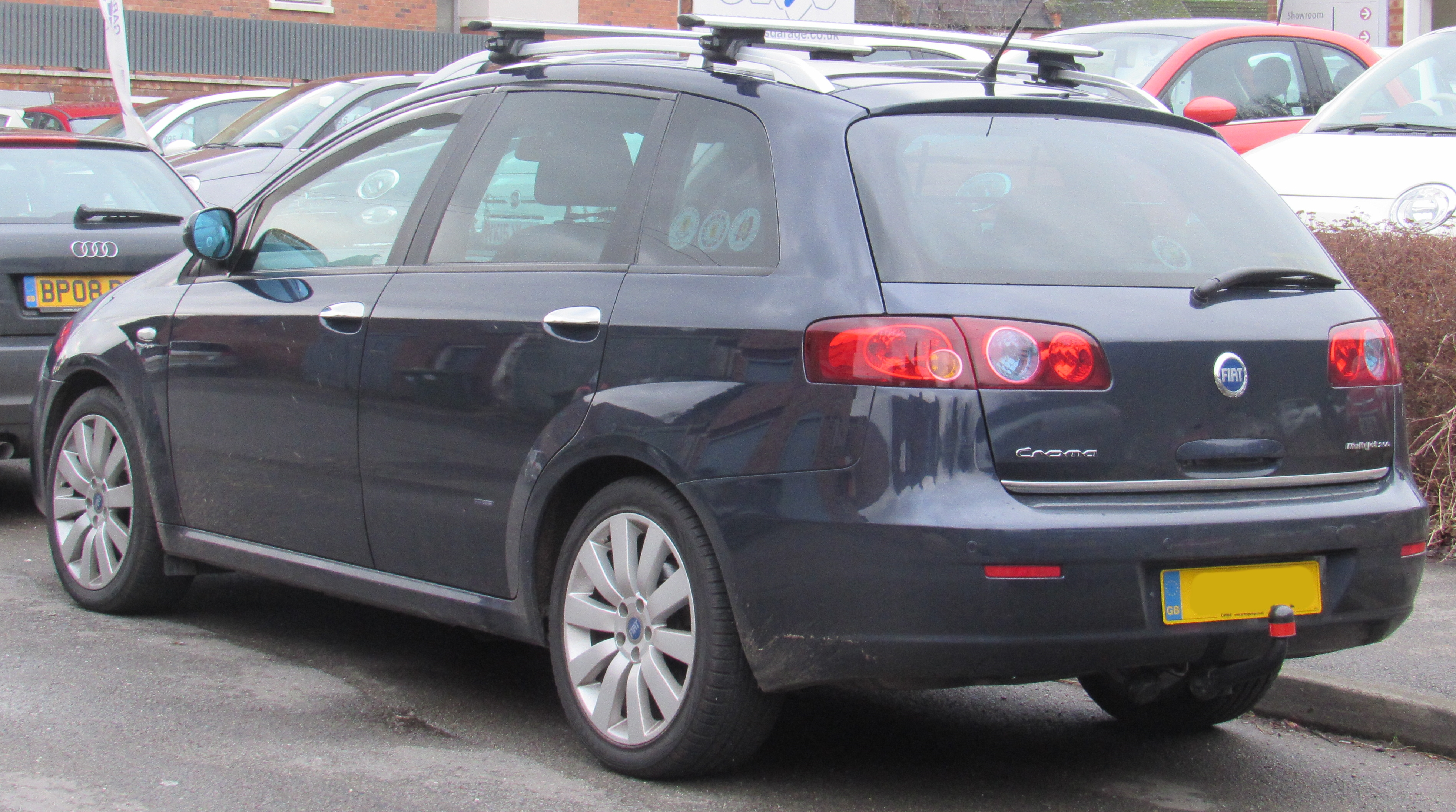 2005 Fiat Croma P-Gio Multijet JTD200 Automatic 2.4 Rear Taken in Warwick